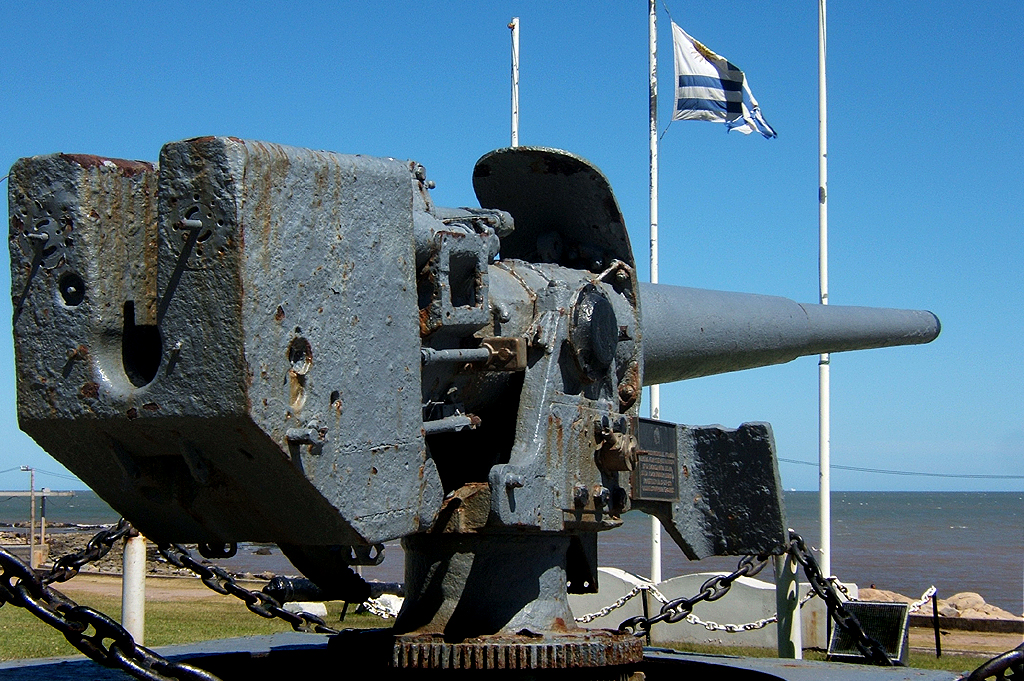 A 150mm cannon recovered from the German battle ship Graf Spee is trained on the River Plate, site of its last battle in December 1939. The max. range of this cannon was 22 km. [Uruguayan Naval Museum]